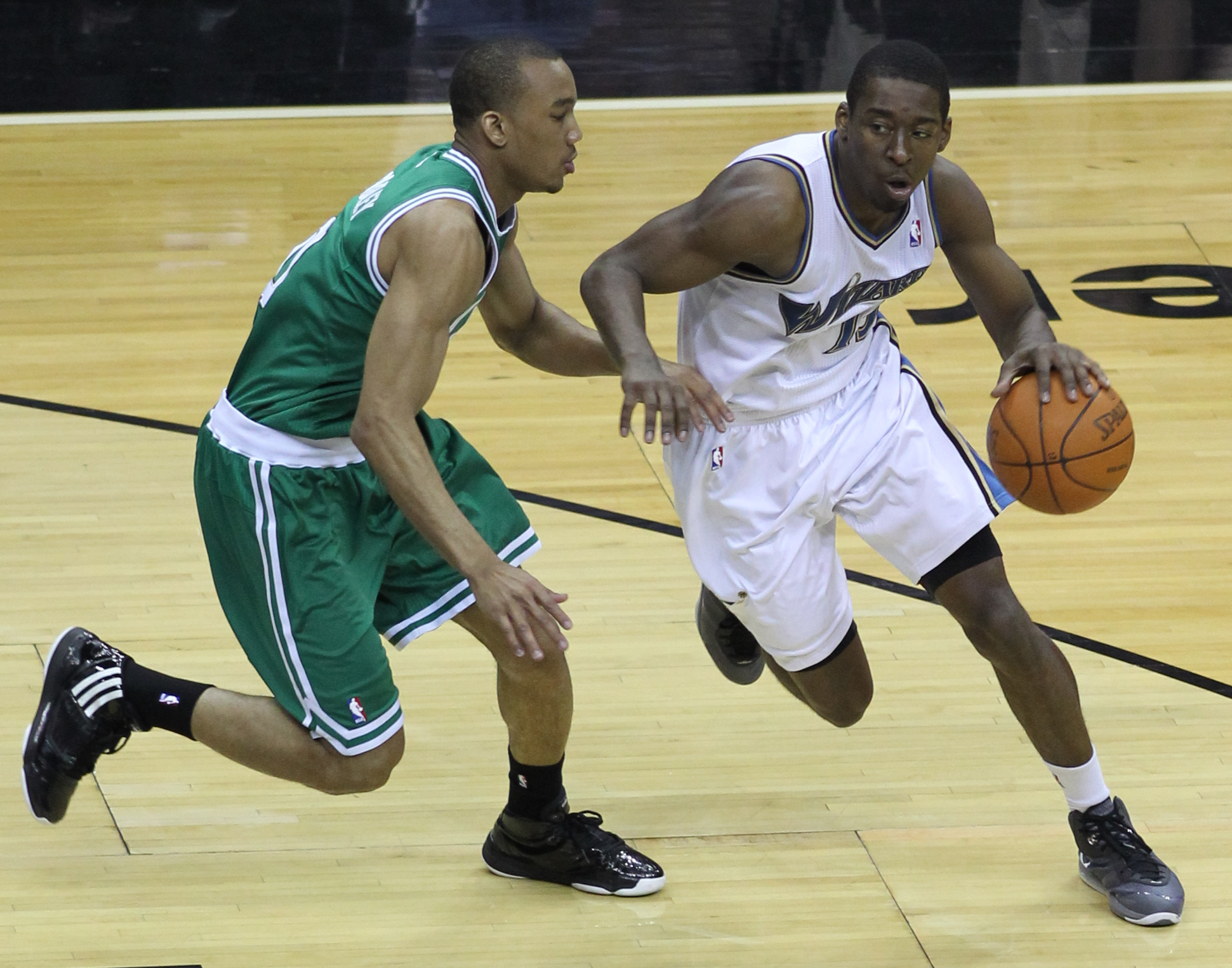 Boston Celtics v/s Washington Wizards April 11, 2011